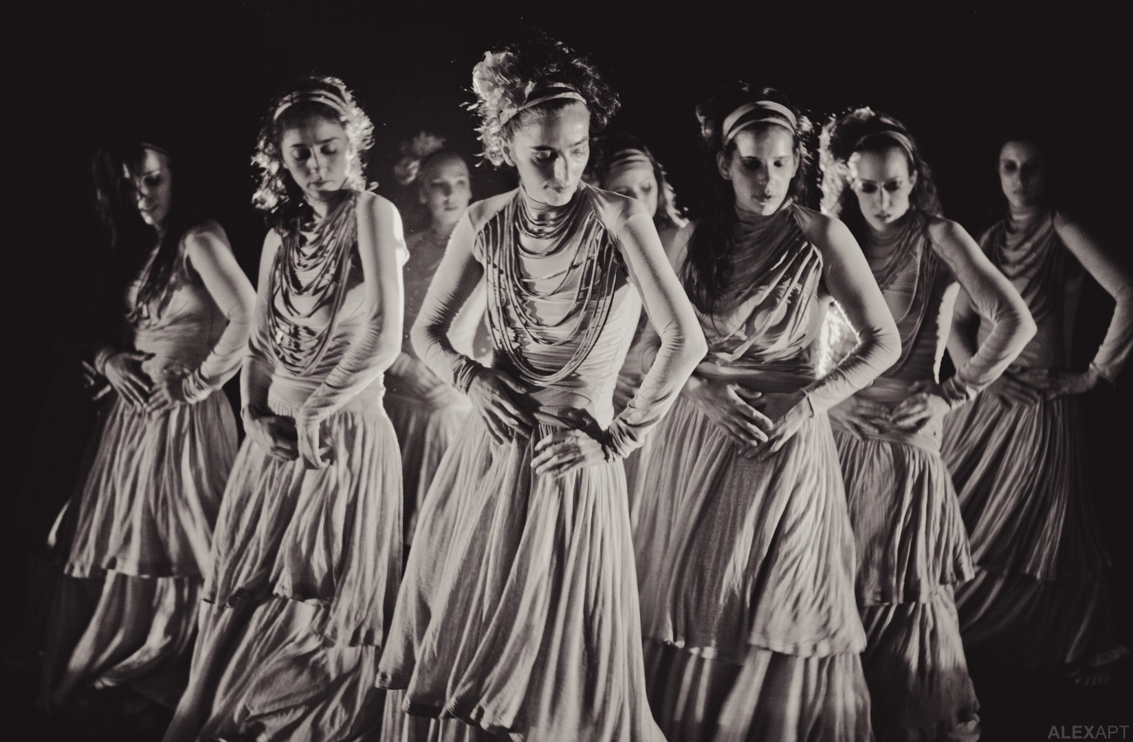 A scene from the work "Rabia" perfromed by Orly Portal Dance Company